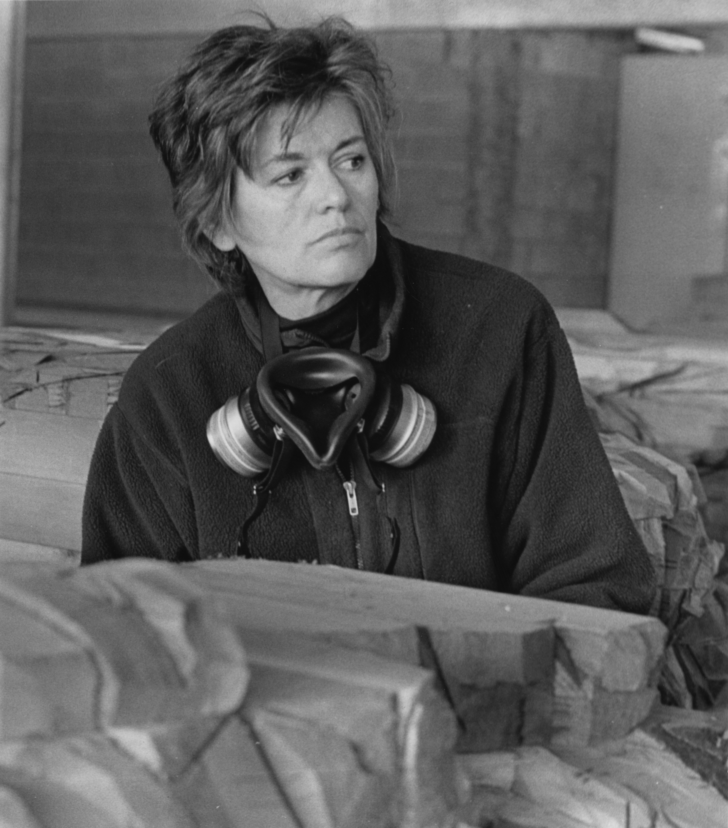 Portrait of Ursula von Rydingsvard in her Brooklyn studio